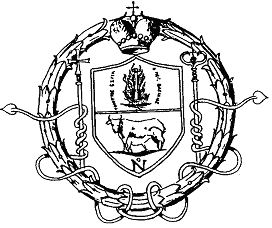 Coat of arms of Italian Basilian monks of Grottaferrata, from a book printed in 1890